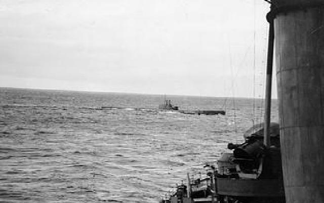 The submarine HMS CLYDE acting as an escort during the refuelling between RFA DINGLEDALE and HMS HERMIONE